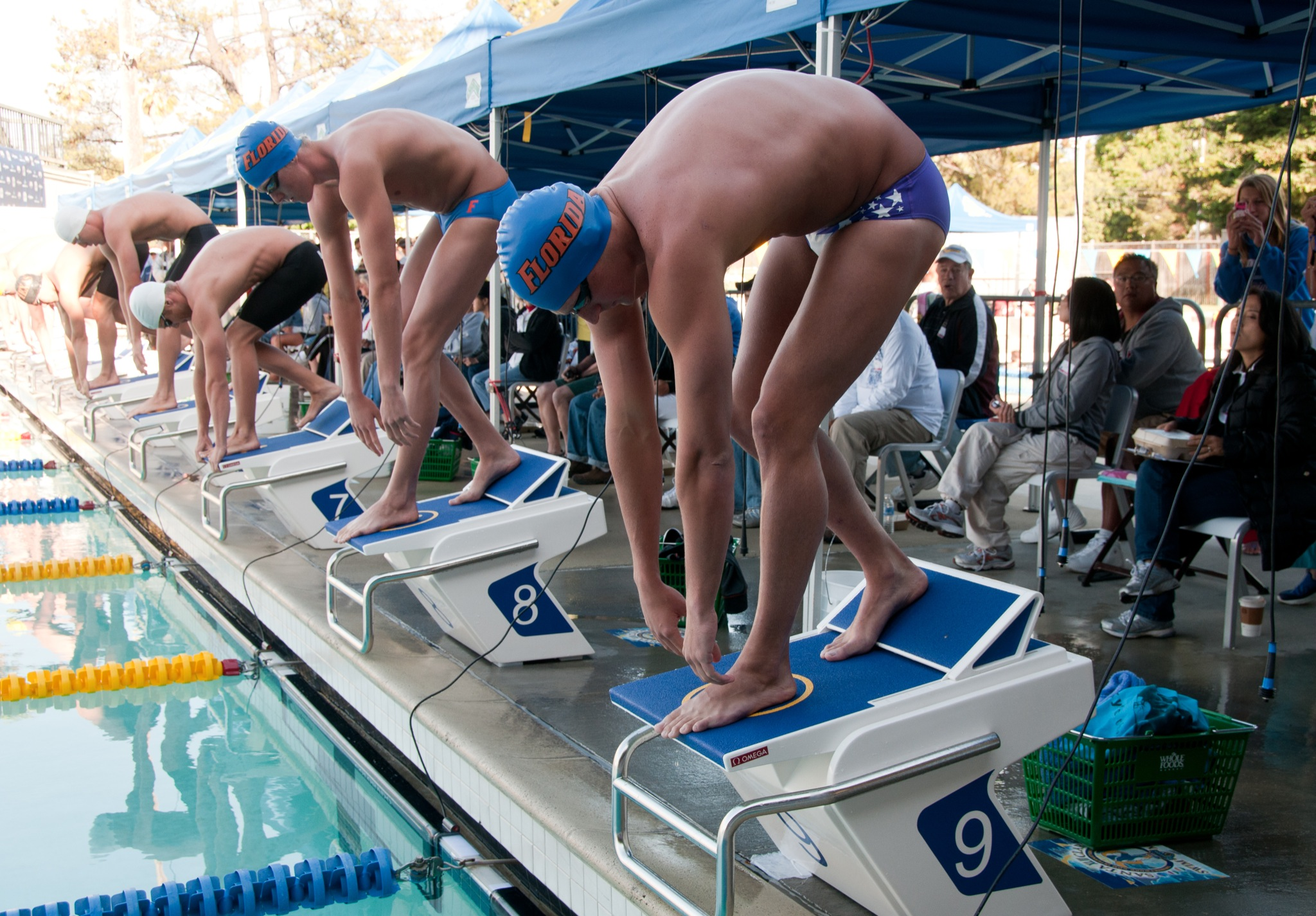 Ryan Lochte (near) about to compete. Photo copyright by JD Lasica. for republication rights.